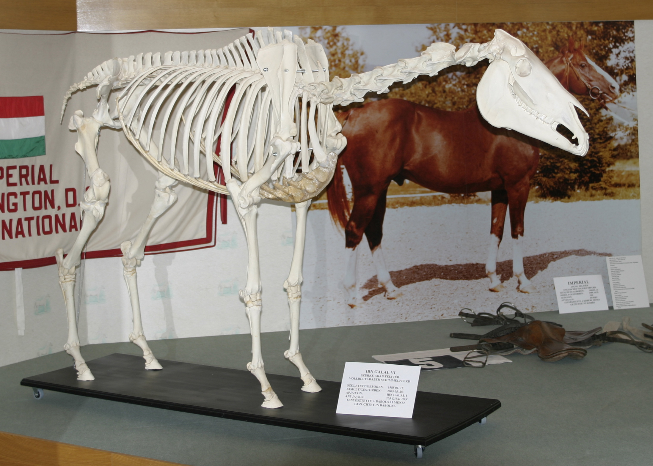 Skeleton of Purebred Arabian Horse Ibn Galal VI, taken in the museum at the national stud in Bábolna/Hungary.